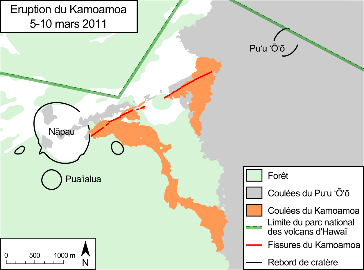 Map of Kamoamoa, fissure in eruption between march 5 and march 10 2011